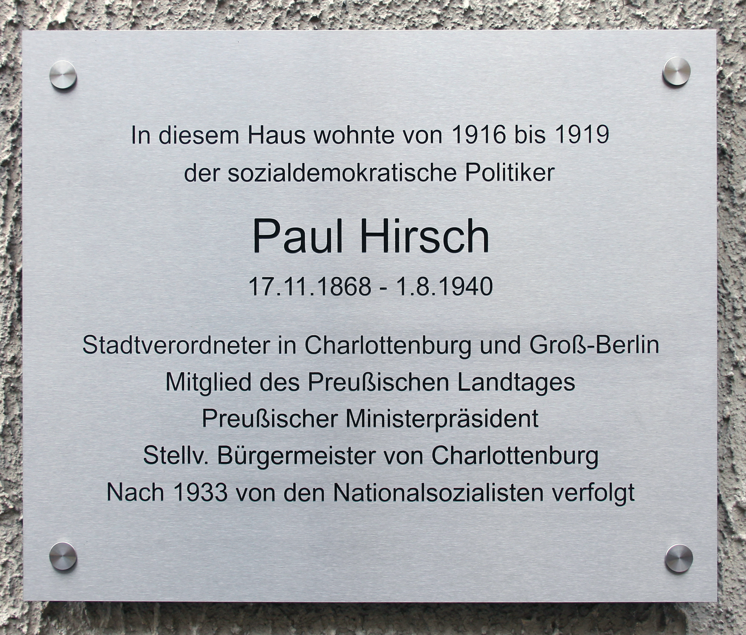 Memorial plaque, Paul Hirsch, Wilmersdorfer Straße 15, Berlin-Charlottenburg, Germany